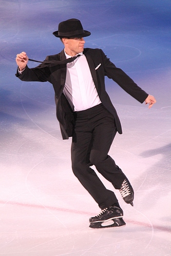 Kurt Browning at the 2010 Stars on Ice in Halifax.